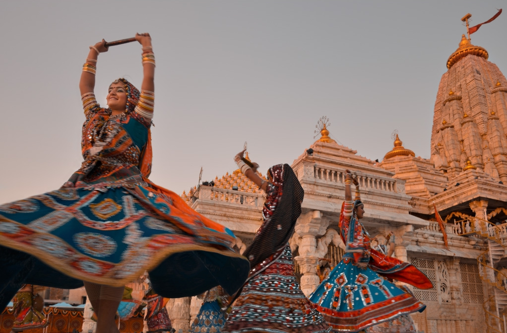 Garba dancers perform in Ambaji temple premises.